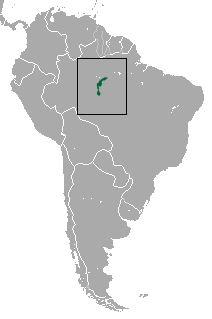 Gold-and-white Marmoset (Mico chrysoleucus) range